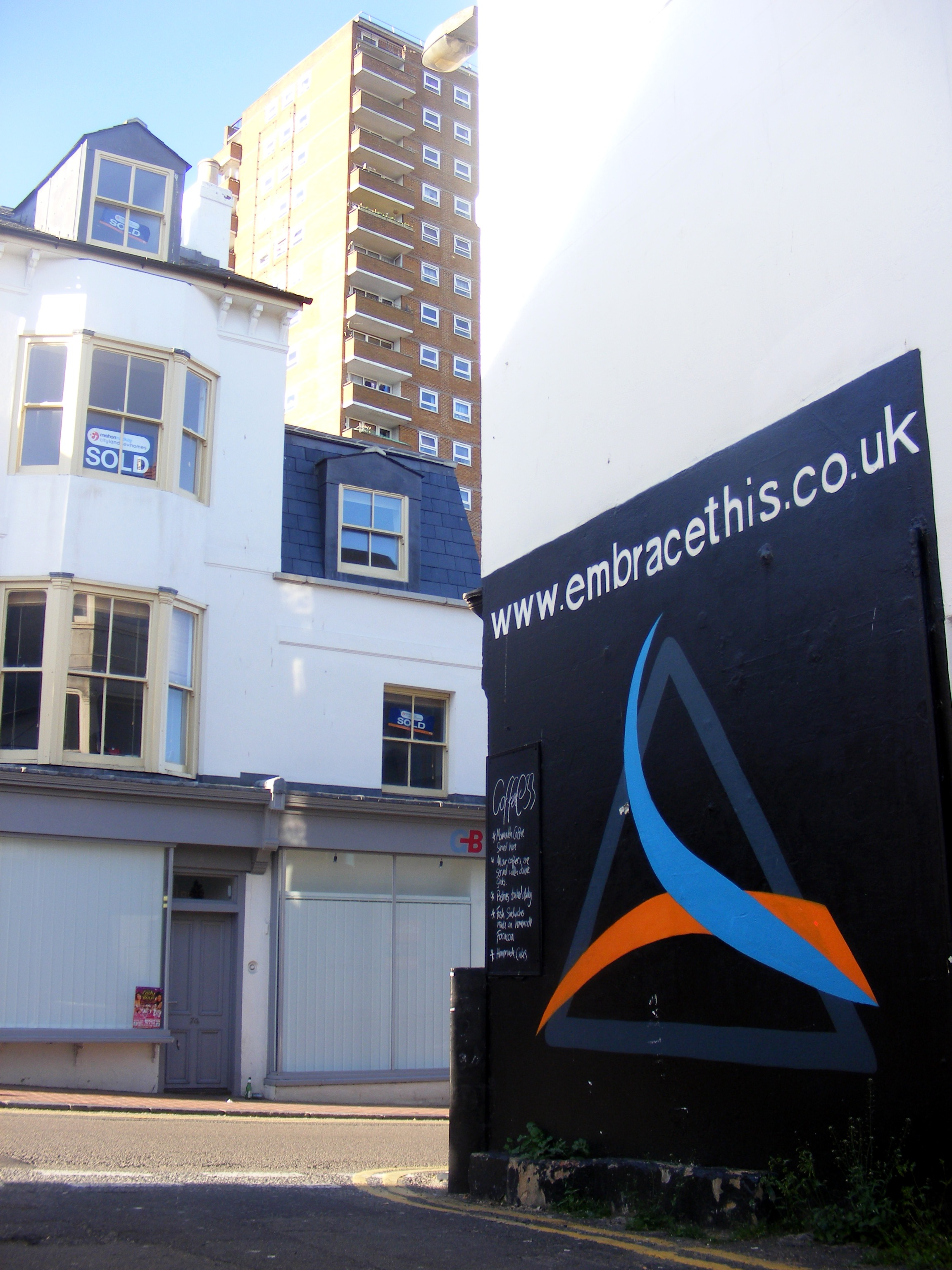 Embrace Life, Embrace this, road safety, Brighton, graffiti, mural